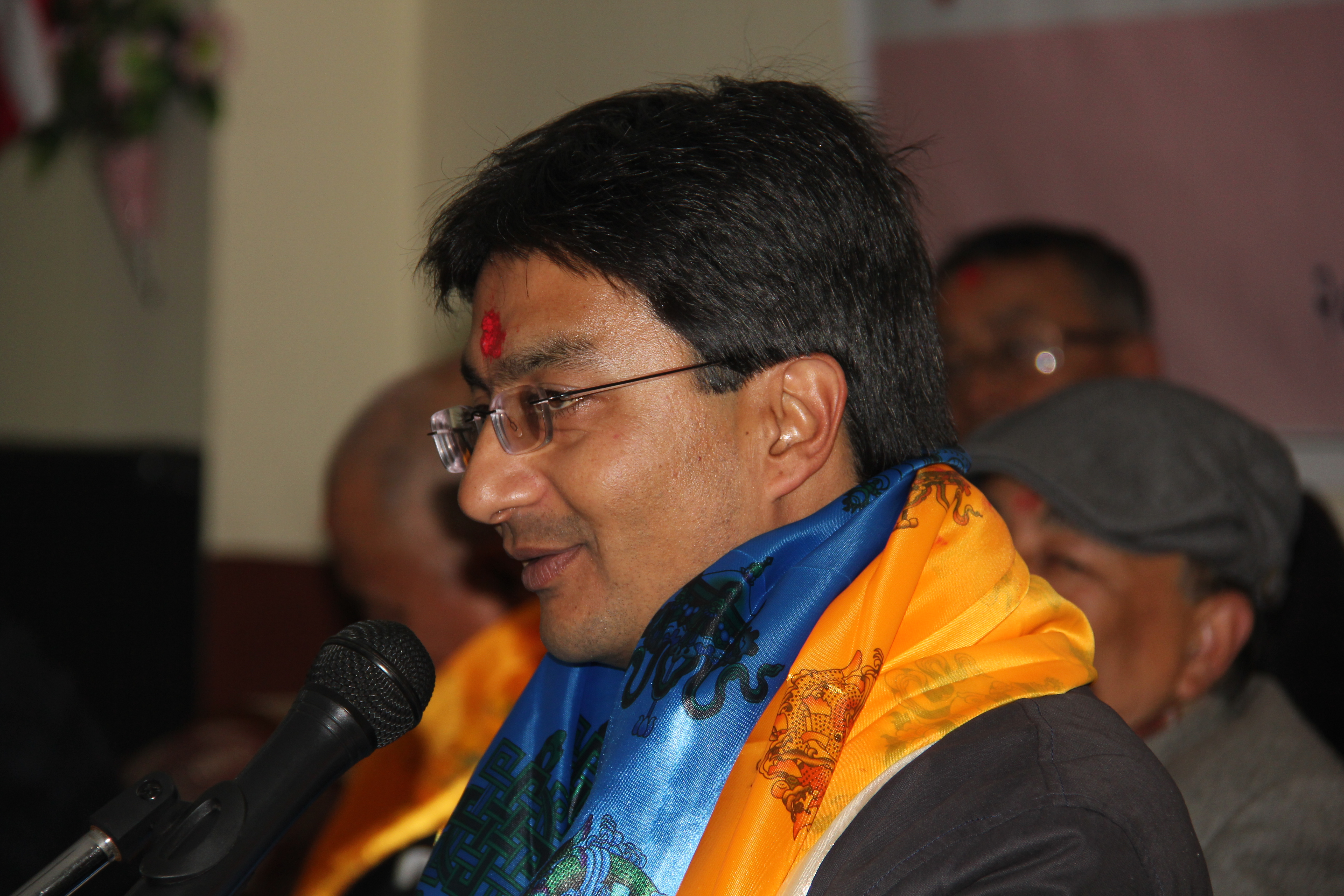 Udaya Shumsher Rana in a program at Kathmandu.